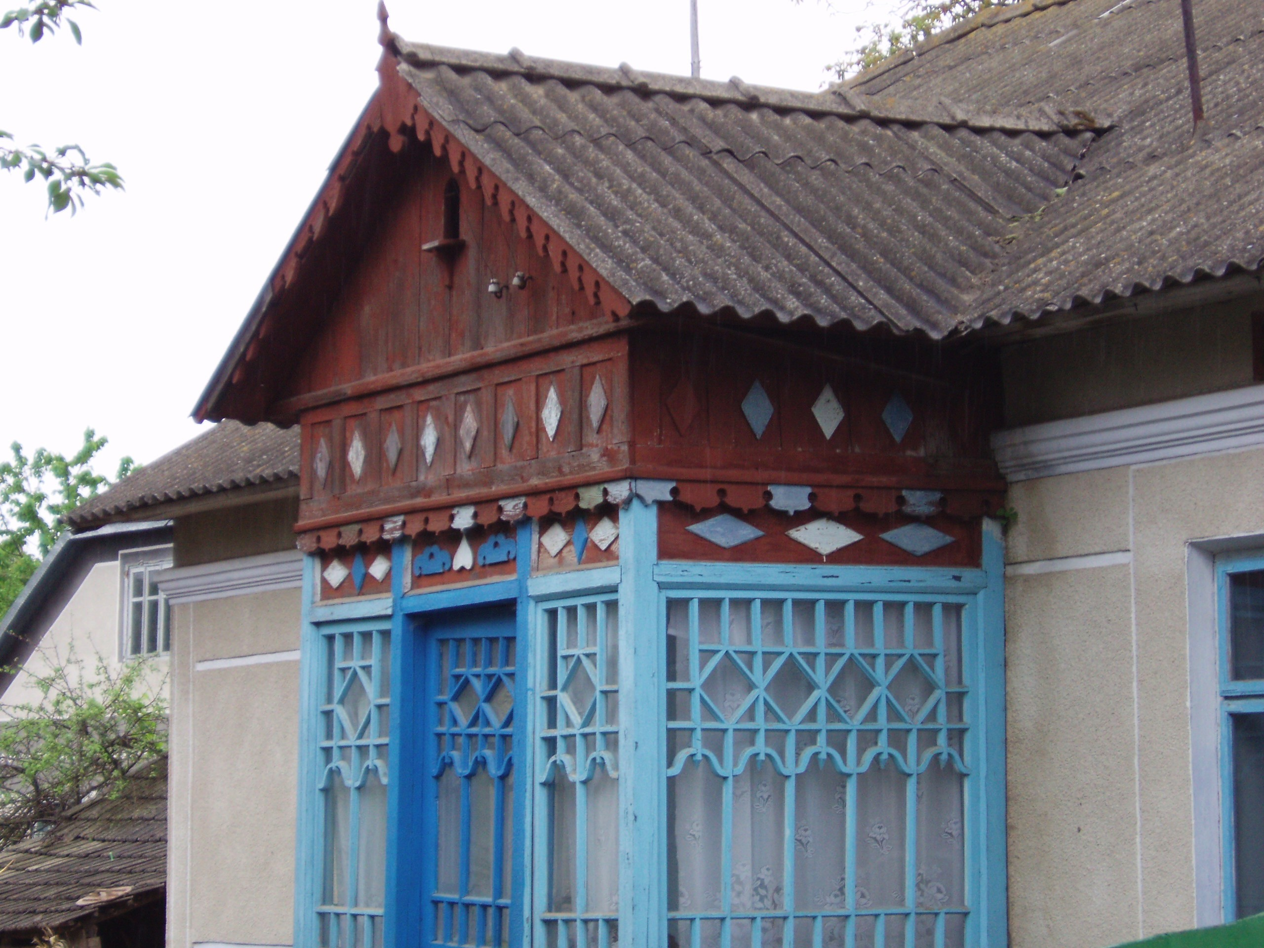 House town of Shutromintsy (Шутроминці), Zalishchytskyi Raion, Ukraine.